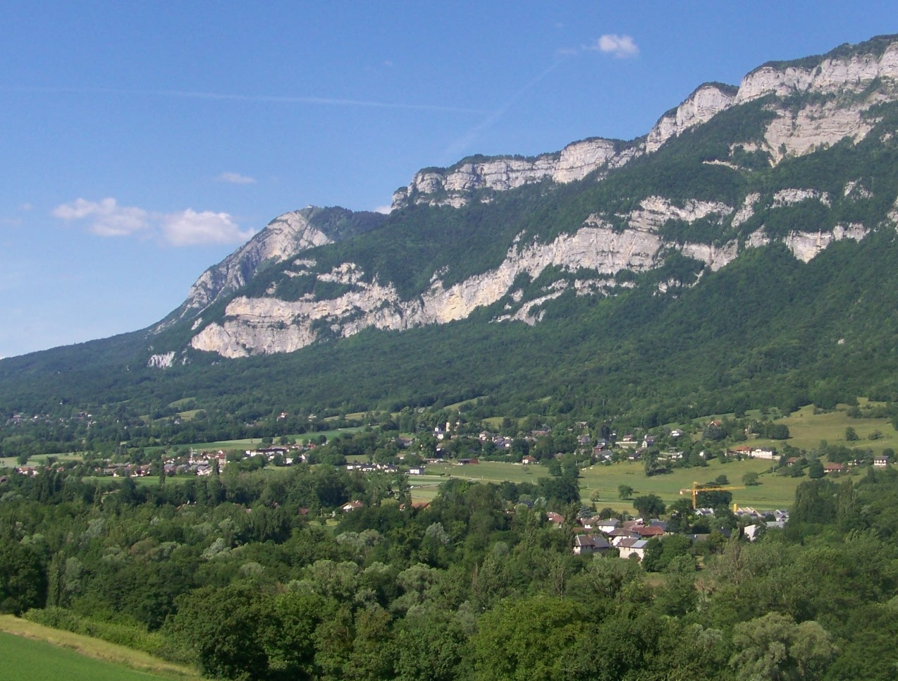 Sight on hamlets of the French commune of Méry, near Chambéry in Savoie.